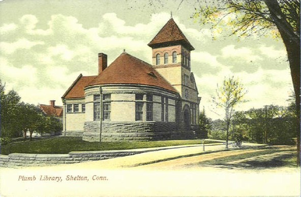 Postcard: Plumb Library in Shelton. From store Web page: "Plumb Library, Shelton, Connecticut Postcard, Pub for Hart's 5 & 10 Cent Stores, [...] Undivided Back (1901-07 era), Postally Unused"